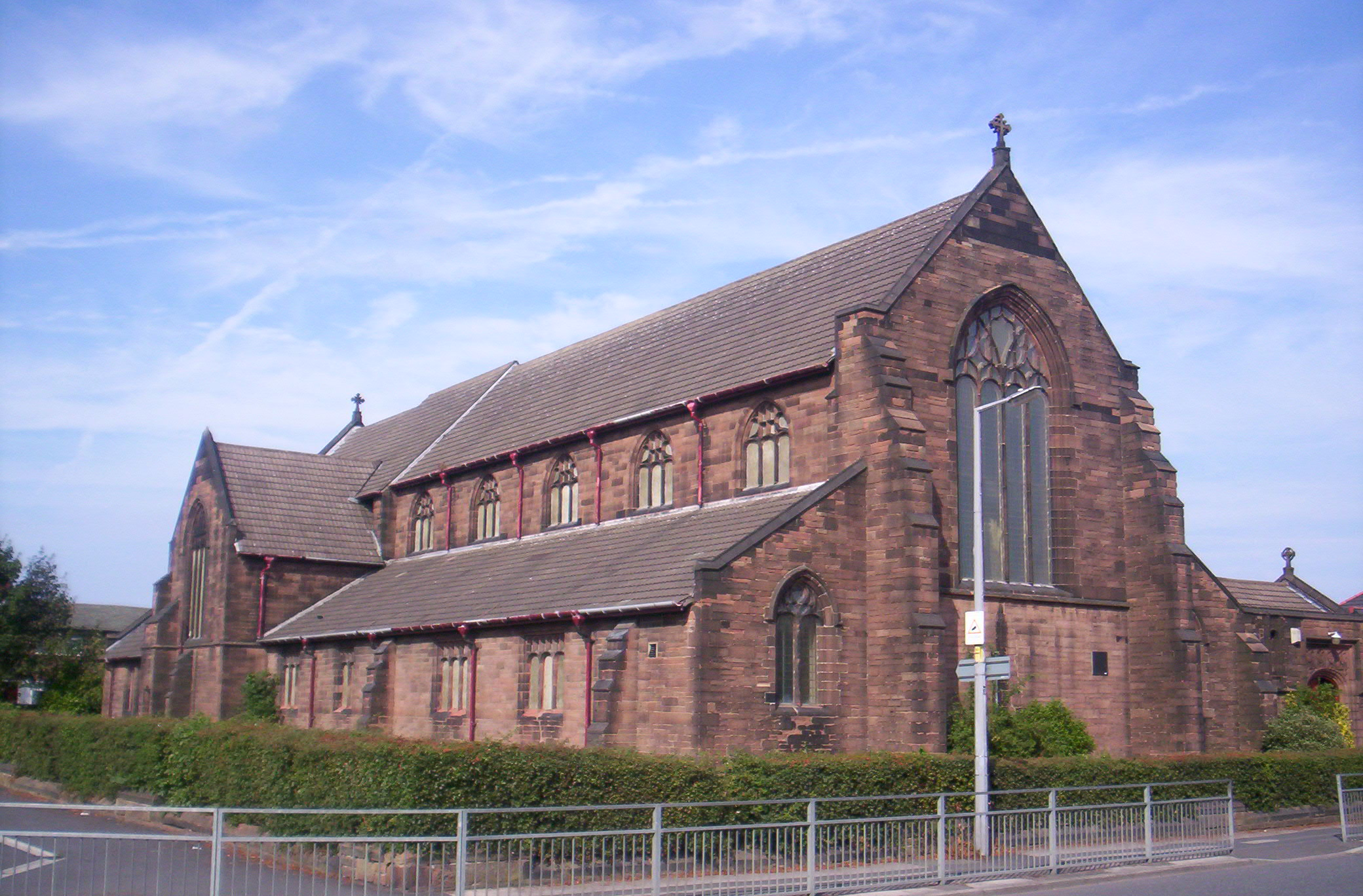 All Saints' parish church, Ellamsbridge Road, Sutton, St Helens, Merseyside, seen from the southwest. designed by Austin and Paley; consecrated 14 October 1893.